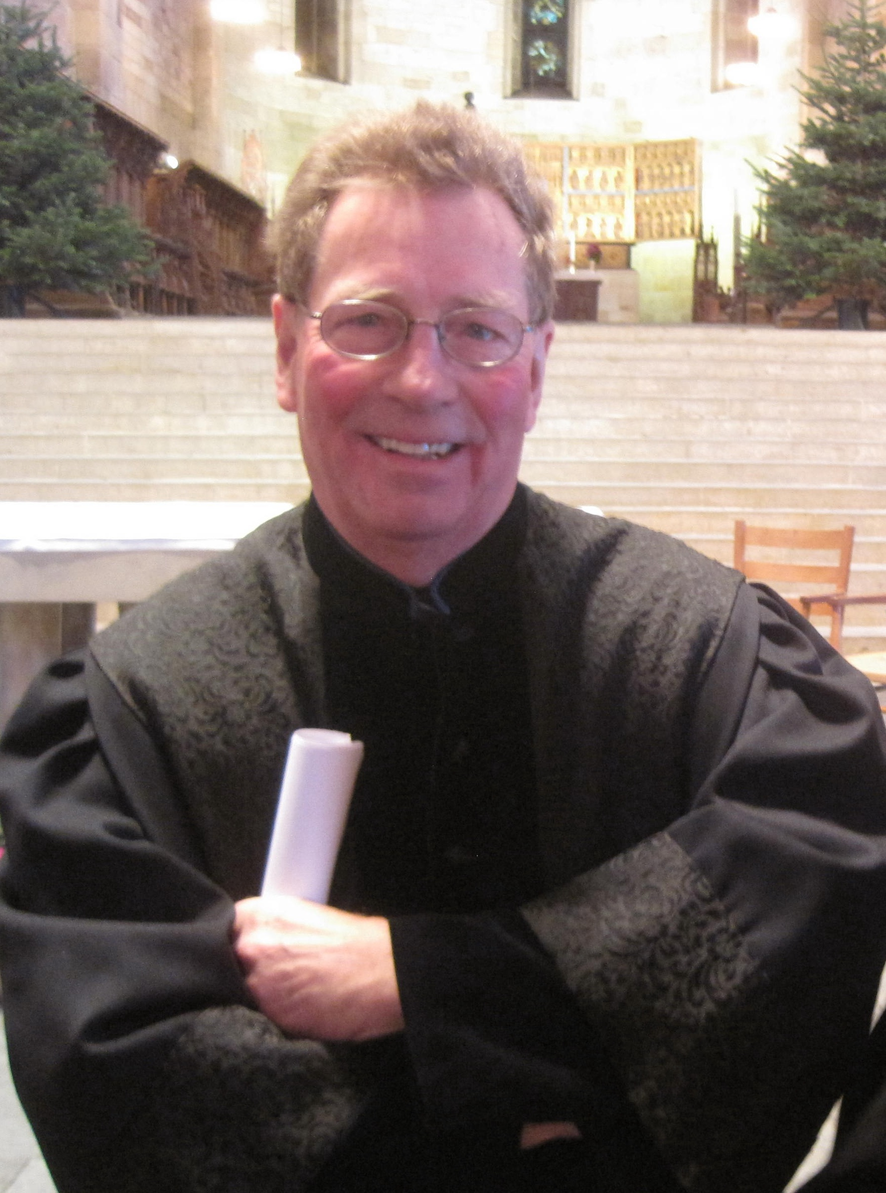 Kjell Åke Modéer (born 1939), former professor of the history of law at Lund University. Photo taken after Modéer had delivered a historical lecture in Lund Cathedral, December 2012.